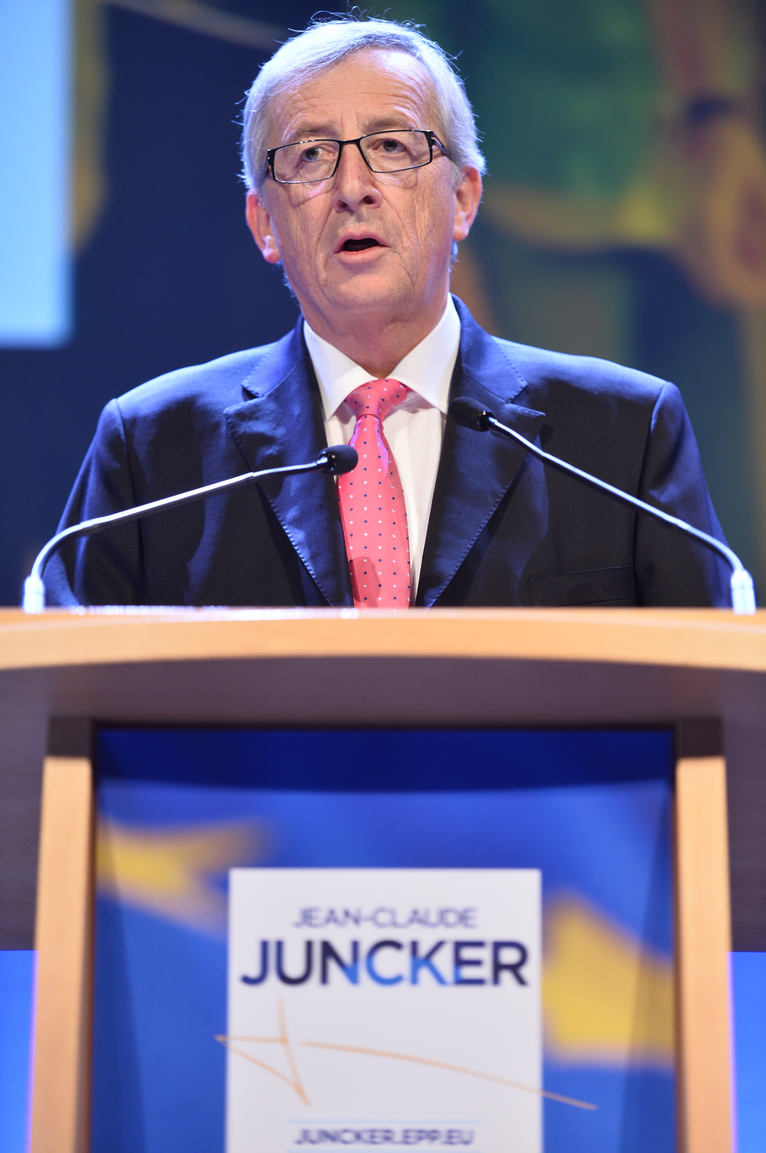 Jean-Claude Juncker